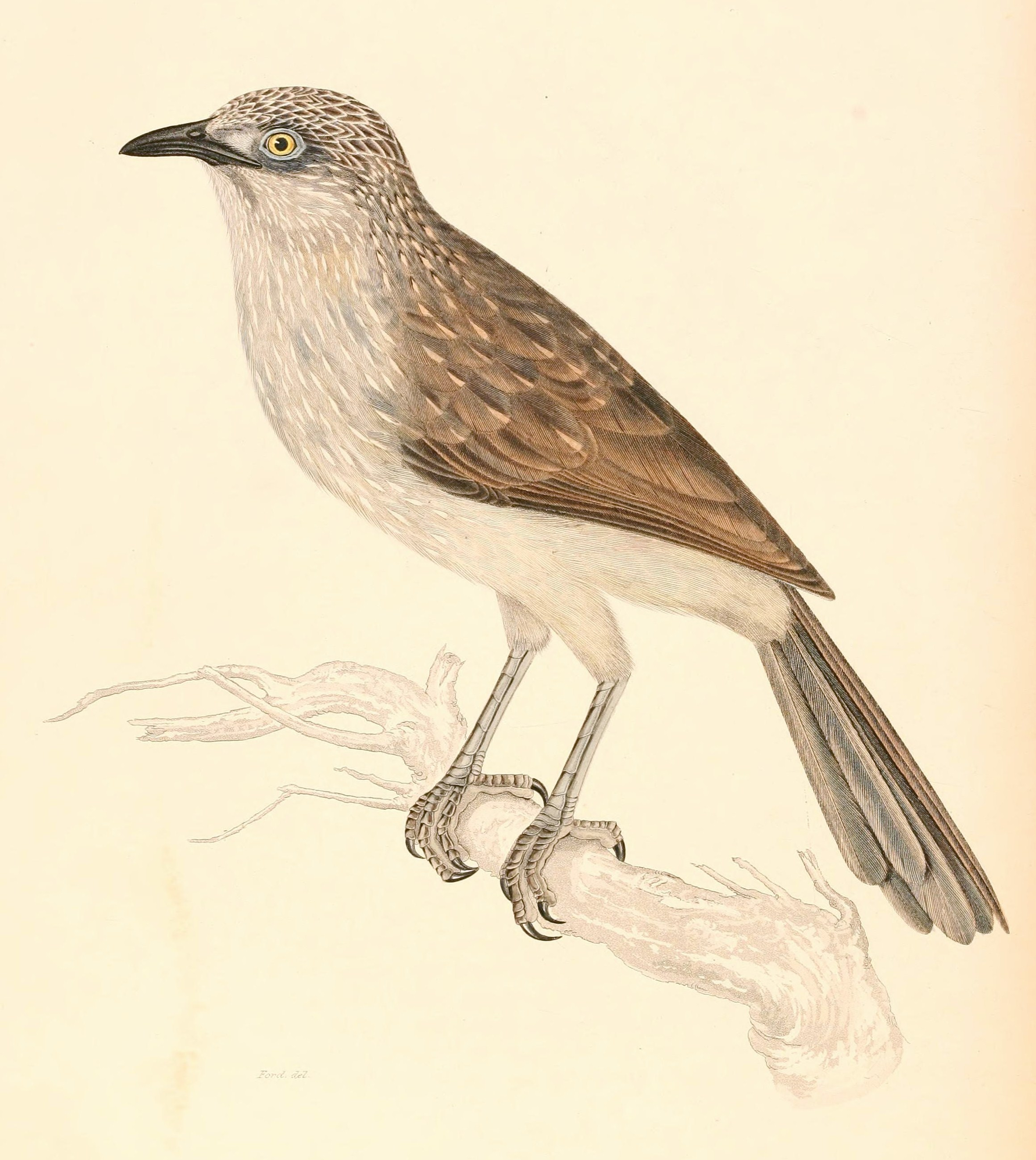 « Crateropus jardinii » = Turdoides jardineii jardineii (Subspecies of Arrow-marked Babbler) - male